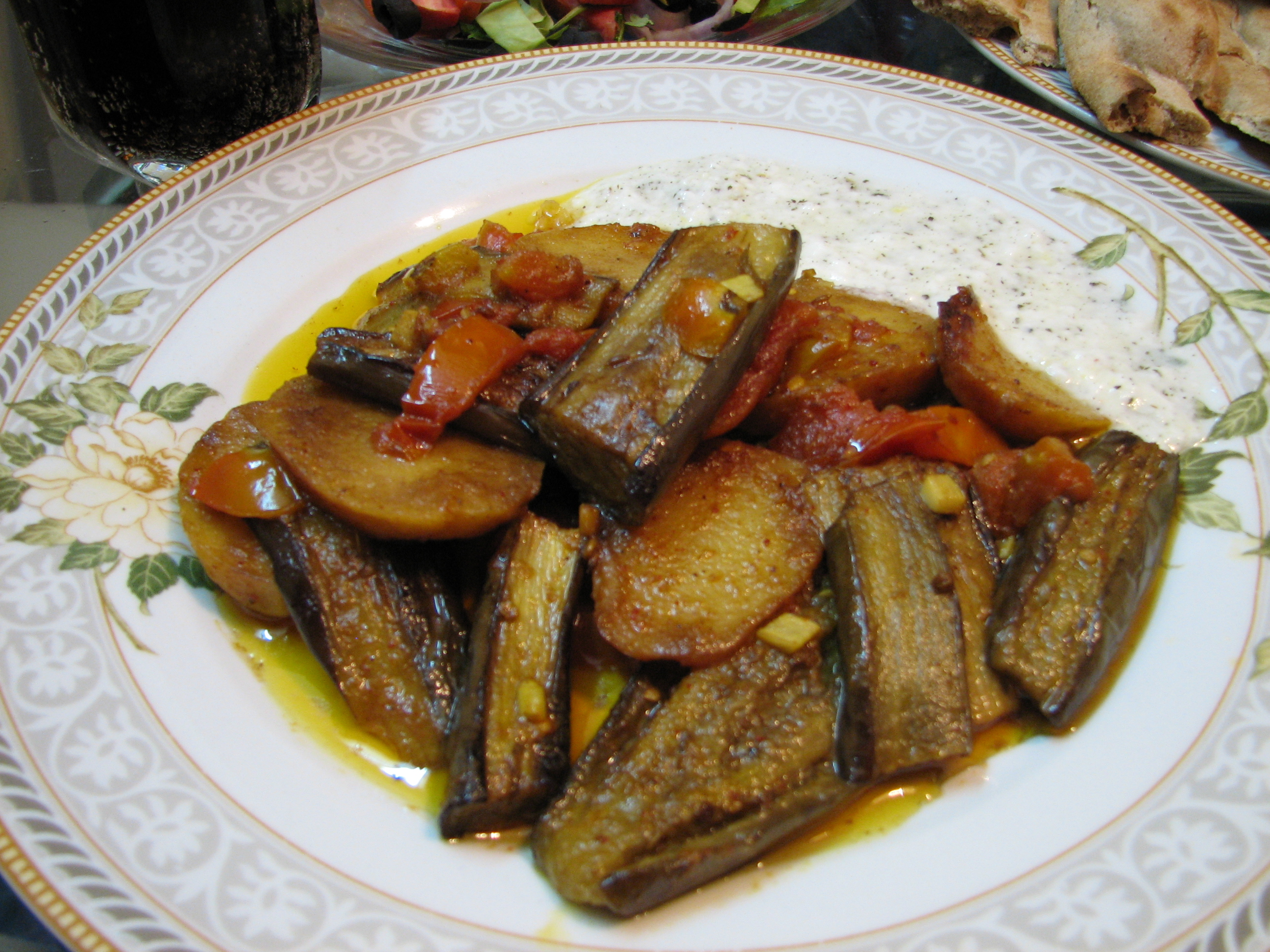 Bonjon or Bonjorn - Cooked eggplant with potatoes and tomatoes. It is eaten with Afghani or Pita bread and is usually prepared for lunch, but can also be served as a side dish with any meal. The white sauce on its side is Afghani home-made plain yogurt with tiny bits of garlic and a sprinkle of dried mint leaves, which comes with most dishes.